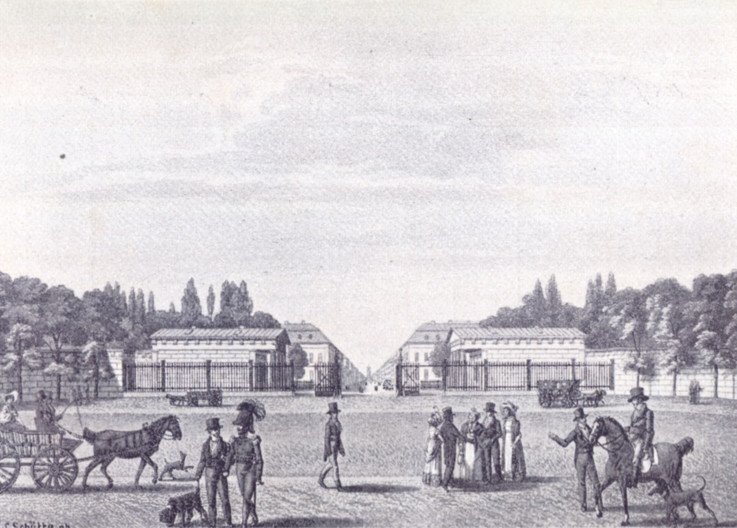 Berlin, Potsdamer Gate (also called new Leipziger Gate) around 1800